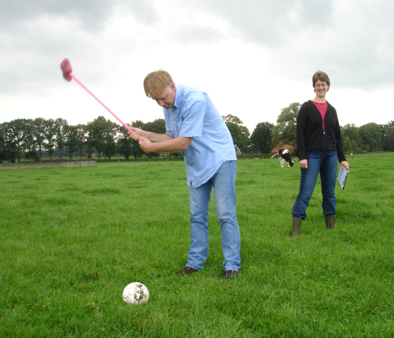 Farmersgolf Nedersaksies: nds-Boerengolf